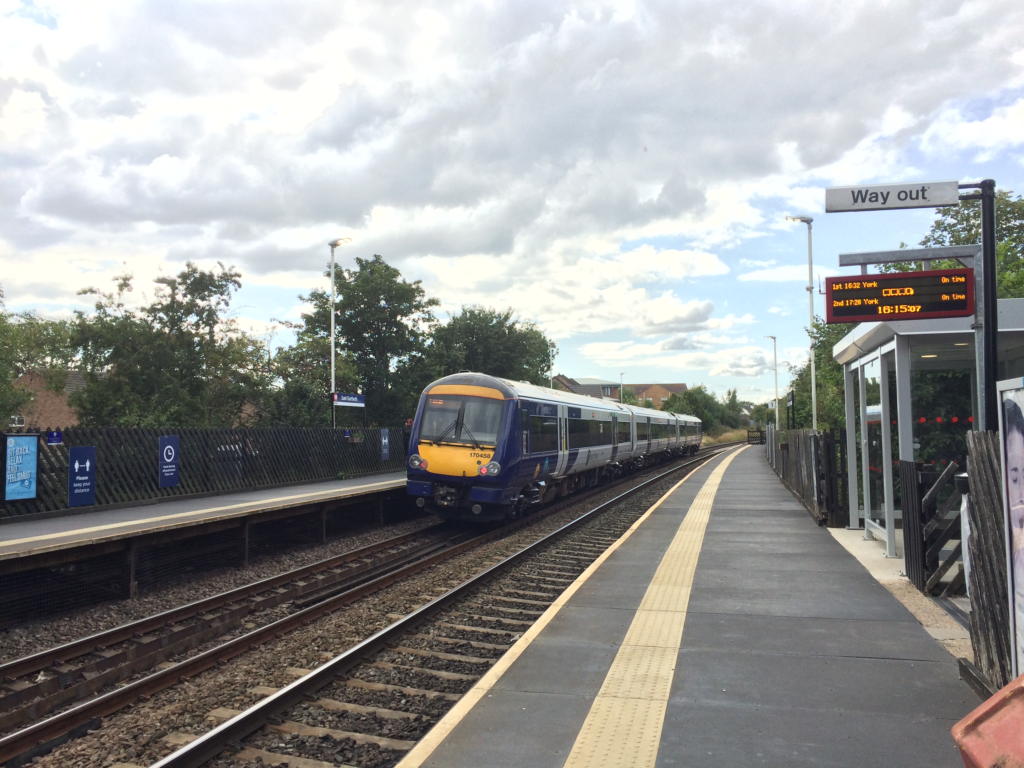 Northern 170458 at East Garforth, August 2020